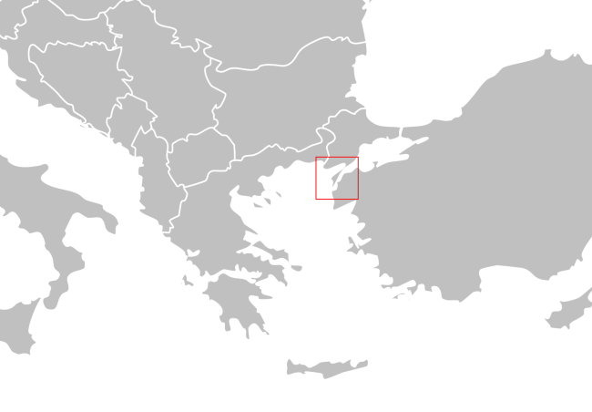 The red box shows the general location of the Dardanelles between Europe and Asia.